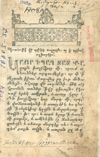 Tale of the City of Bronze, Armenian translation